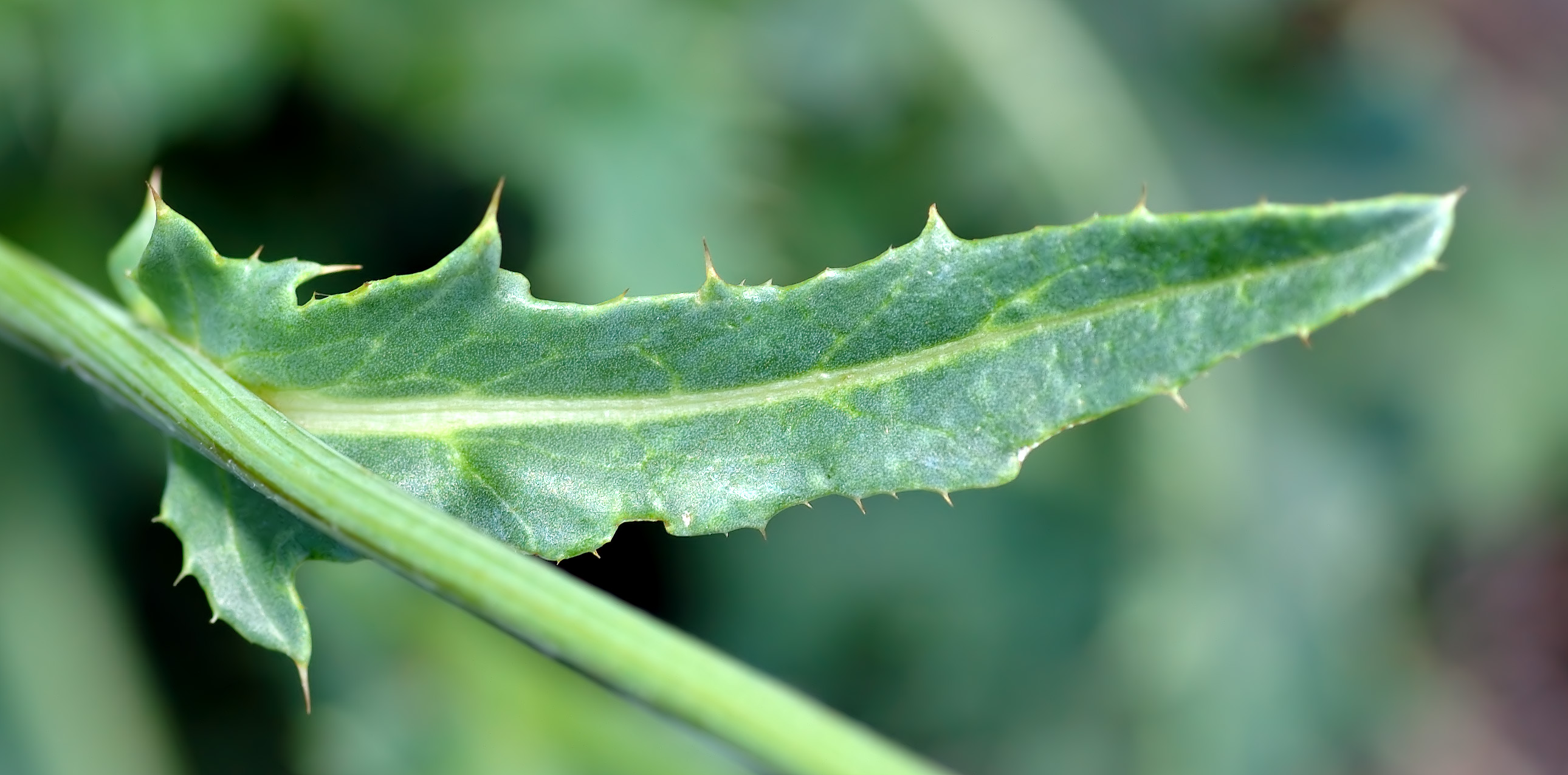 This image shows an Alpine thistle (Carduus defloratus).